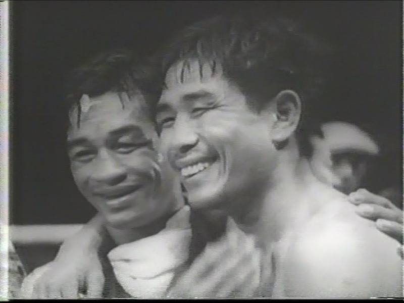 Yoshio Shirai and Dado Marino in World flyweight titlematch in May 1952.